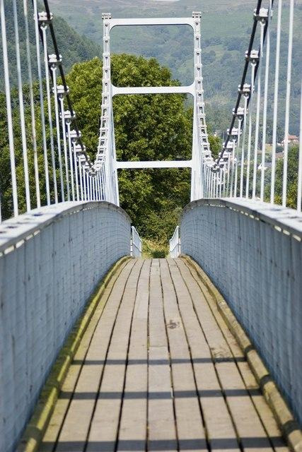 Suspension Bridge over Afon Conwy at Llanrwst